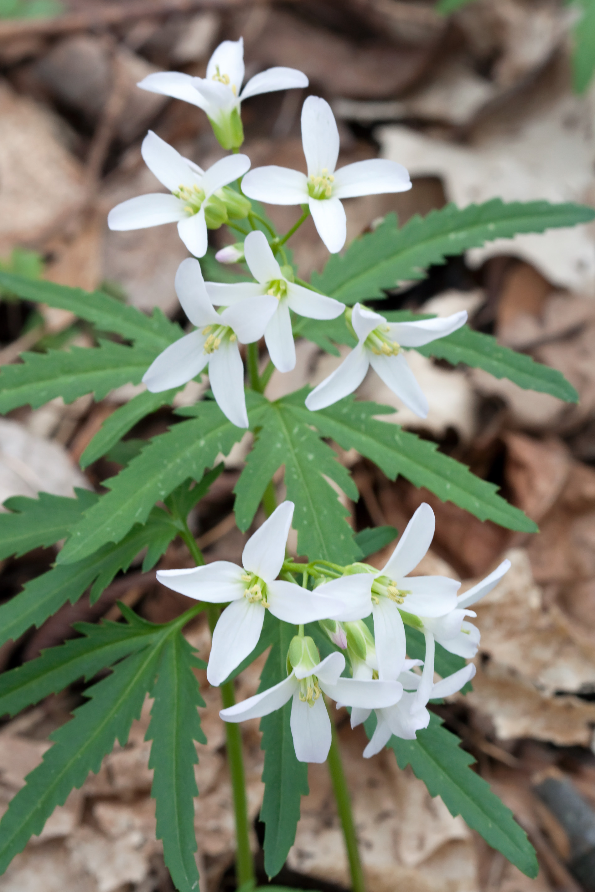 Cutleaf Toothwort (Cardamine concatenata) at Radnor Lake in Nashville, Tennessee